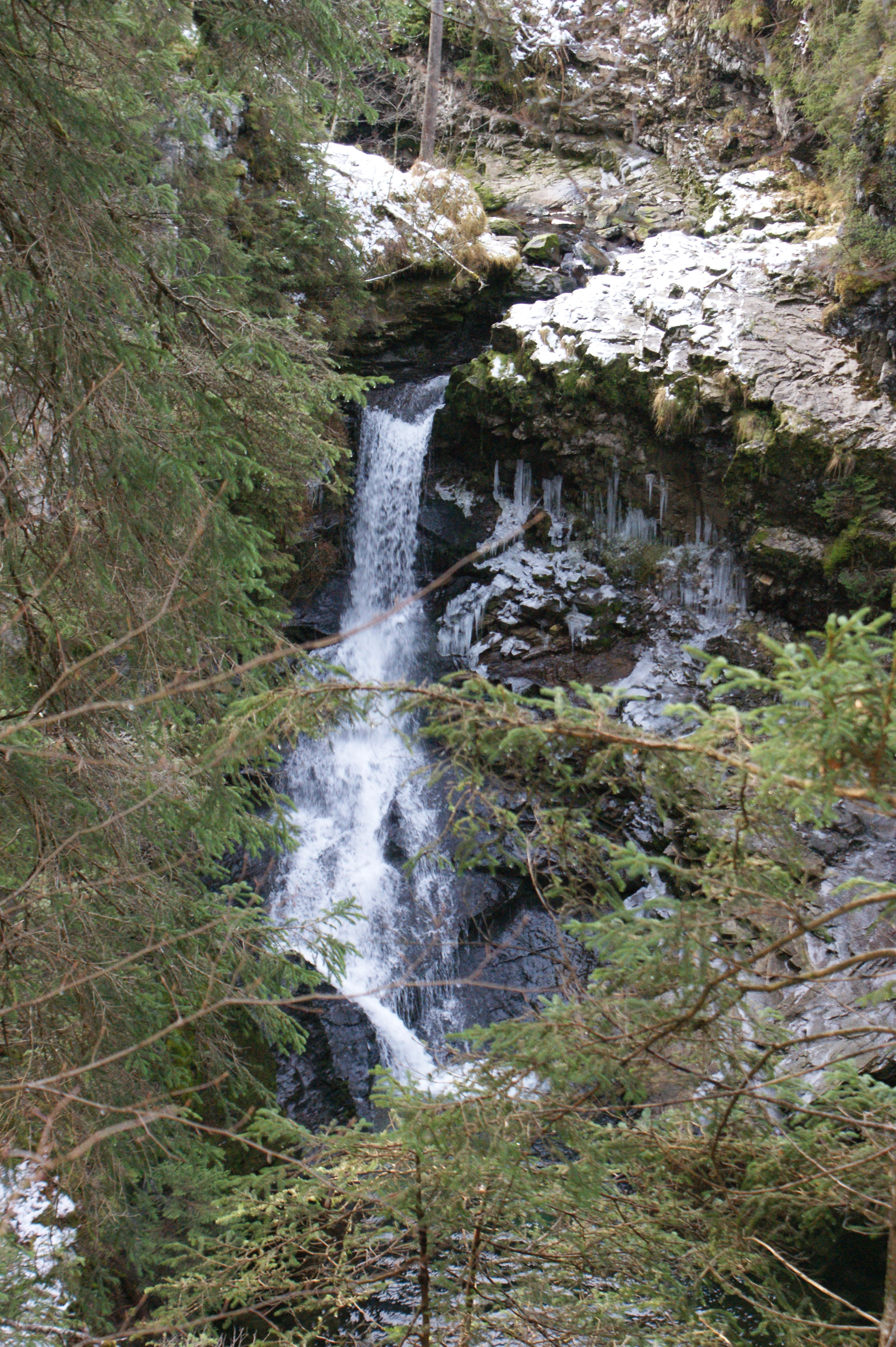 Waterfall at the Schwarzwasserbach (natural monument) in Rietzlern, municipality of Mittelberg, Vorarlberg, Austria.